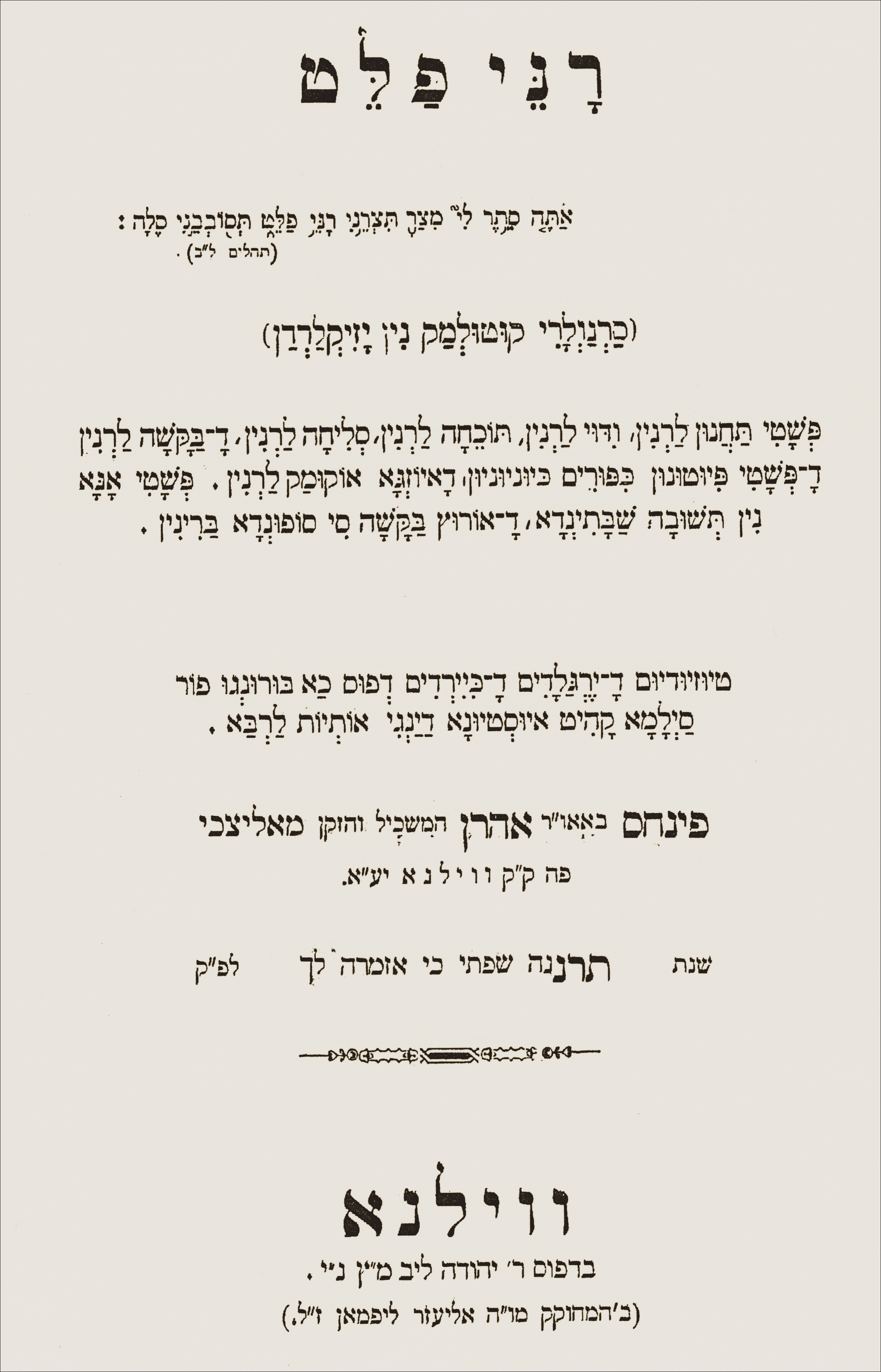 Karaite book: "Rane falet" Pinchas ben Aaron Malicki, Wilno, 1890